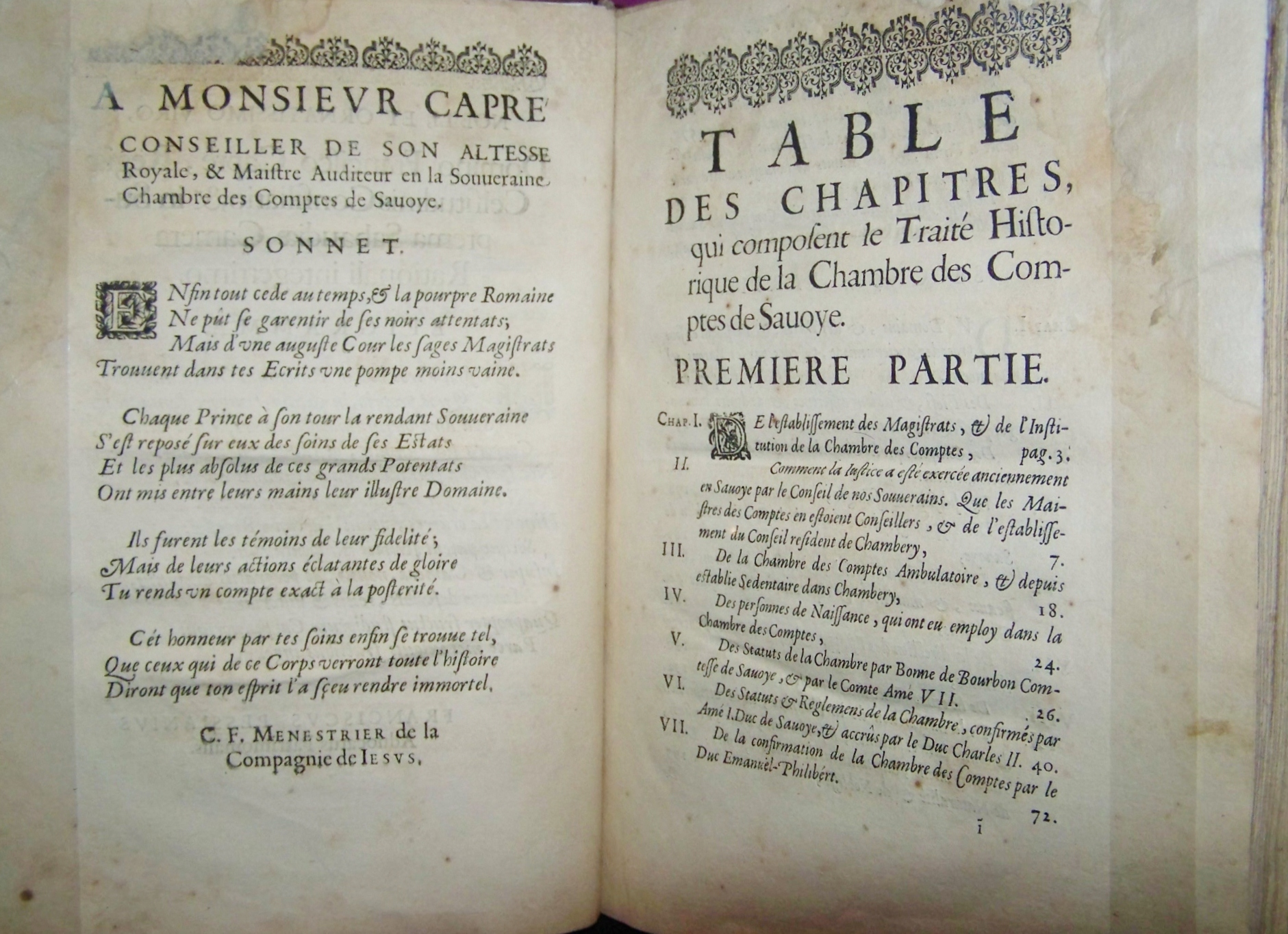 Sight of pages from the Traité historique de la Chambre des comptes de Savoie historical treaty of Savoie, by François Capré, 1662.